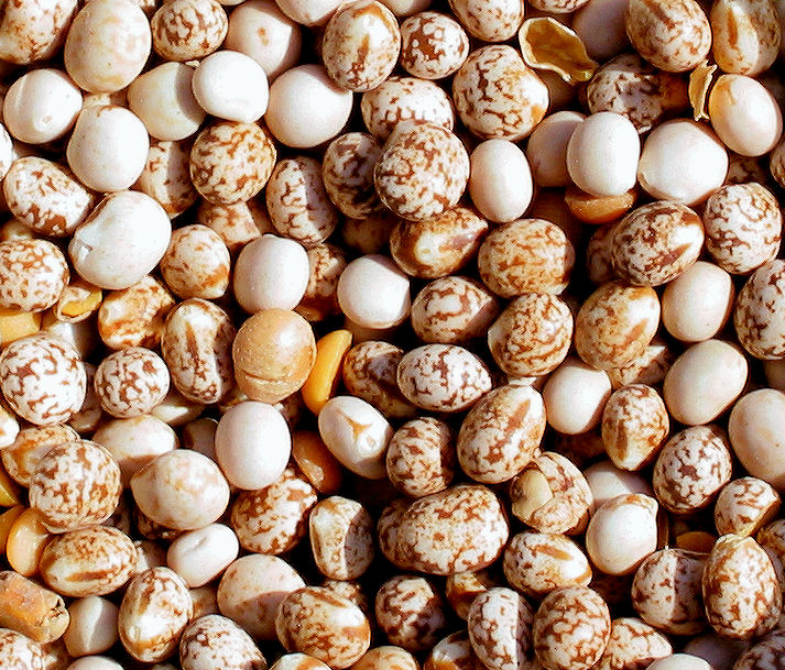 Sweet lupine seeds from Australia